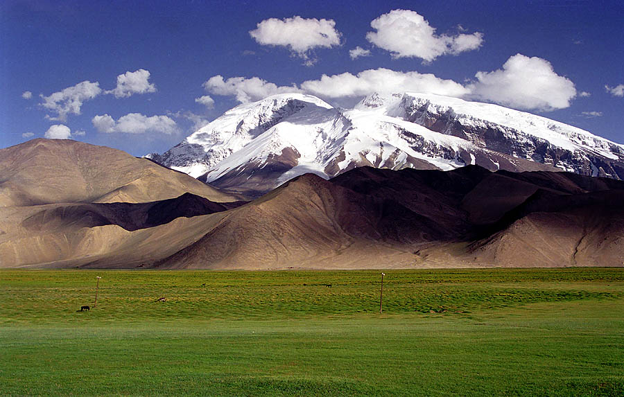 Muztagh Ata and pasture viewed from the Karakoram Highway, Xinjiang, China.